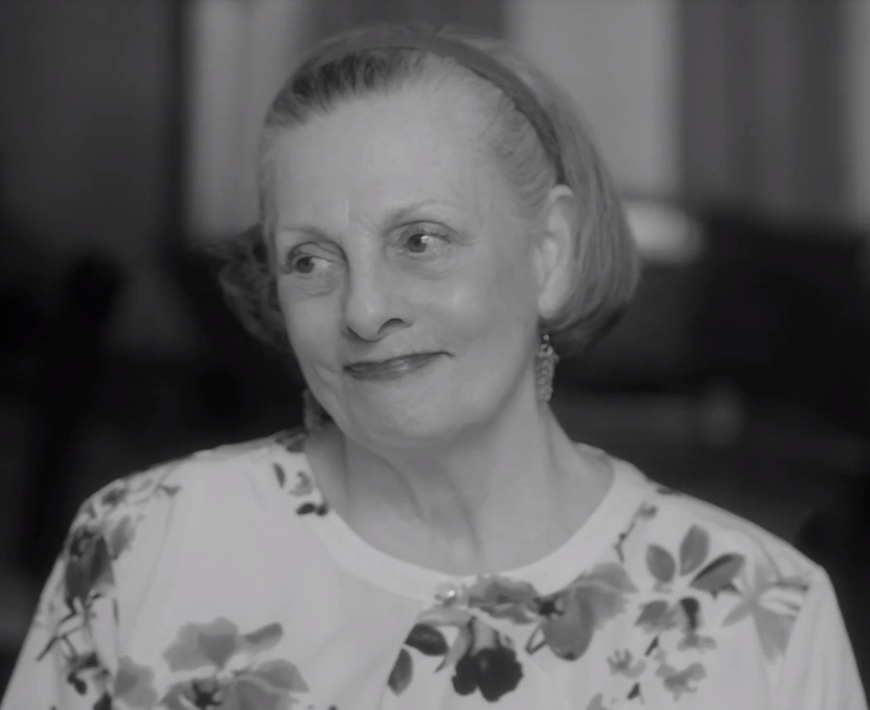 American actress Dana Ivey in trailer for film Professional Cuddler, 2018. Directed by Mika Orr Written by Mika Orr & Miki Ben Cnaan Produced by Danae Grandison & Mikooka Productions Executive Producer: Bob Giraldi Director of Photography: Owen Strock Editor: Shimon Spector Production Designer Annie Chernecky